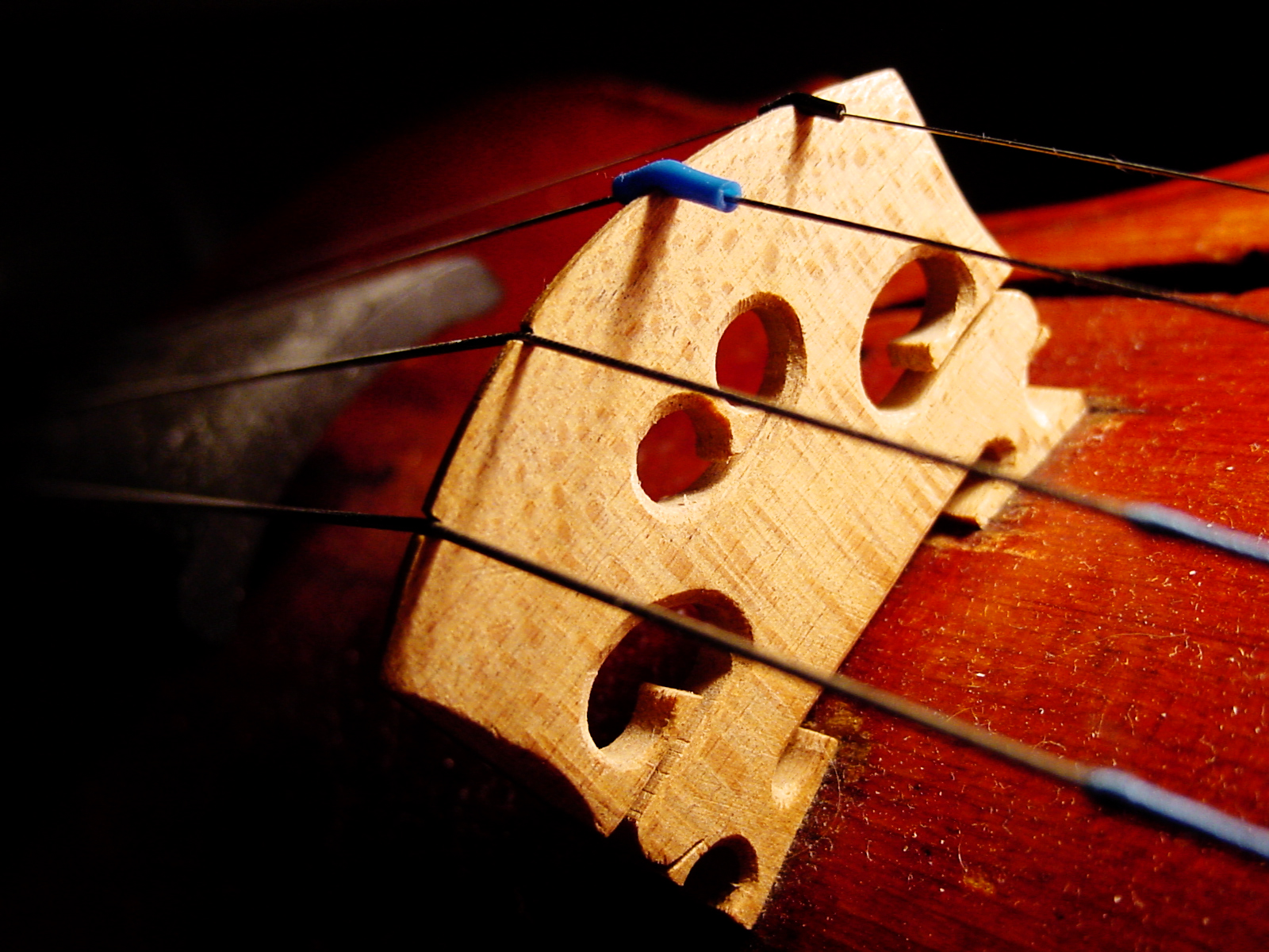 A violin bridge, flatter than most to make it easier to go between double stops.